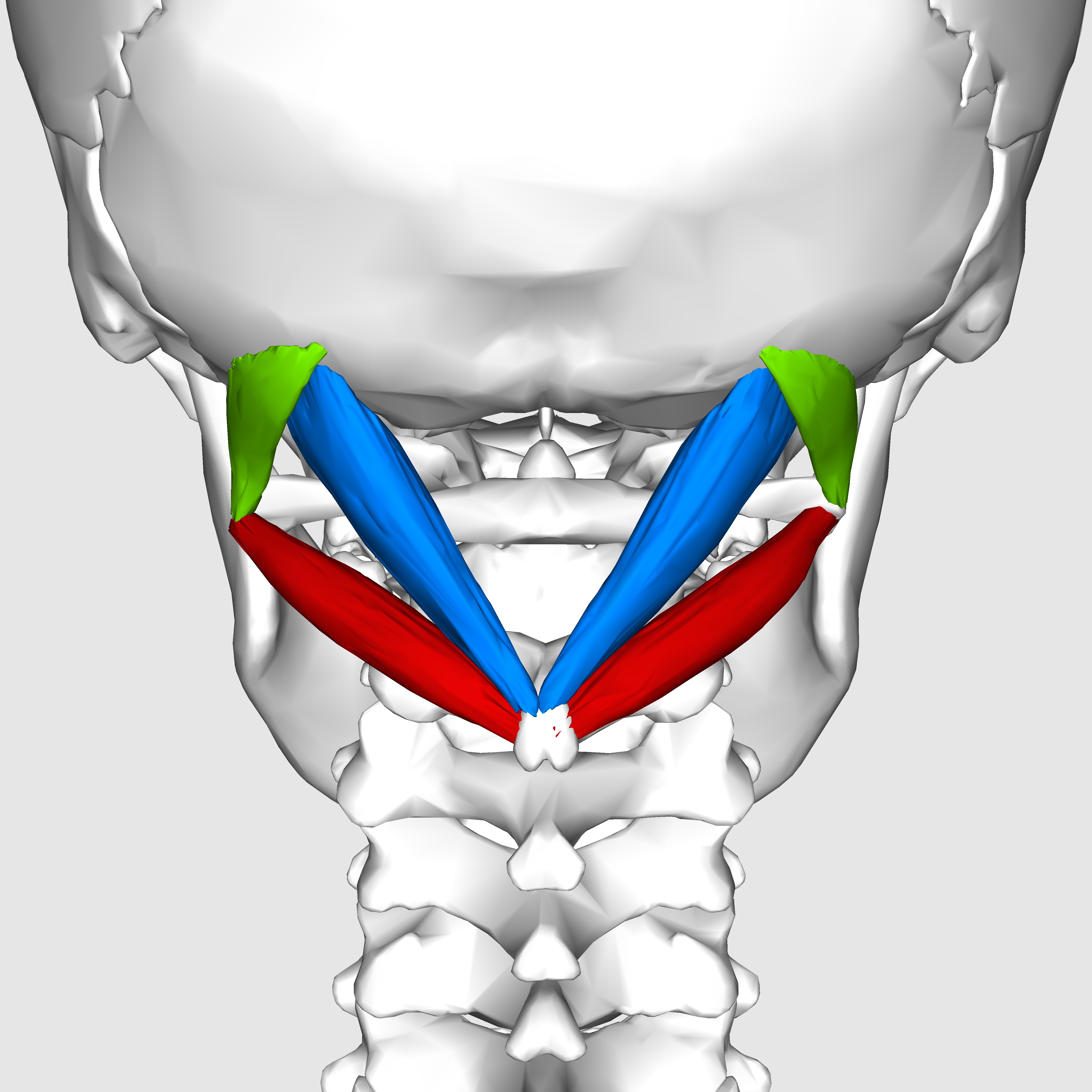 Suboccipital triangle. Obliquus capitis superior muscle Rectus capitis posterior major muscle Obliquus capitis inferior muscle